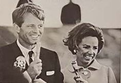 Kennedy for Indiana